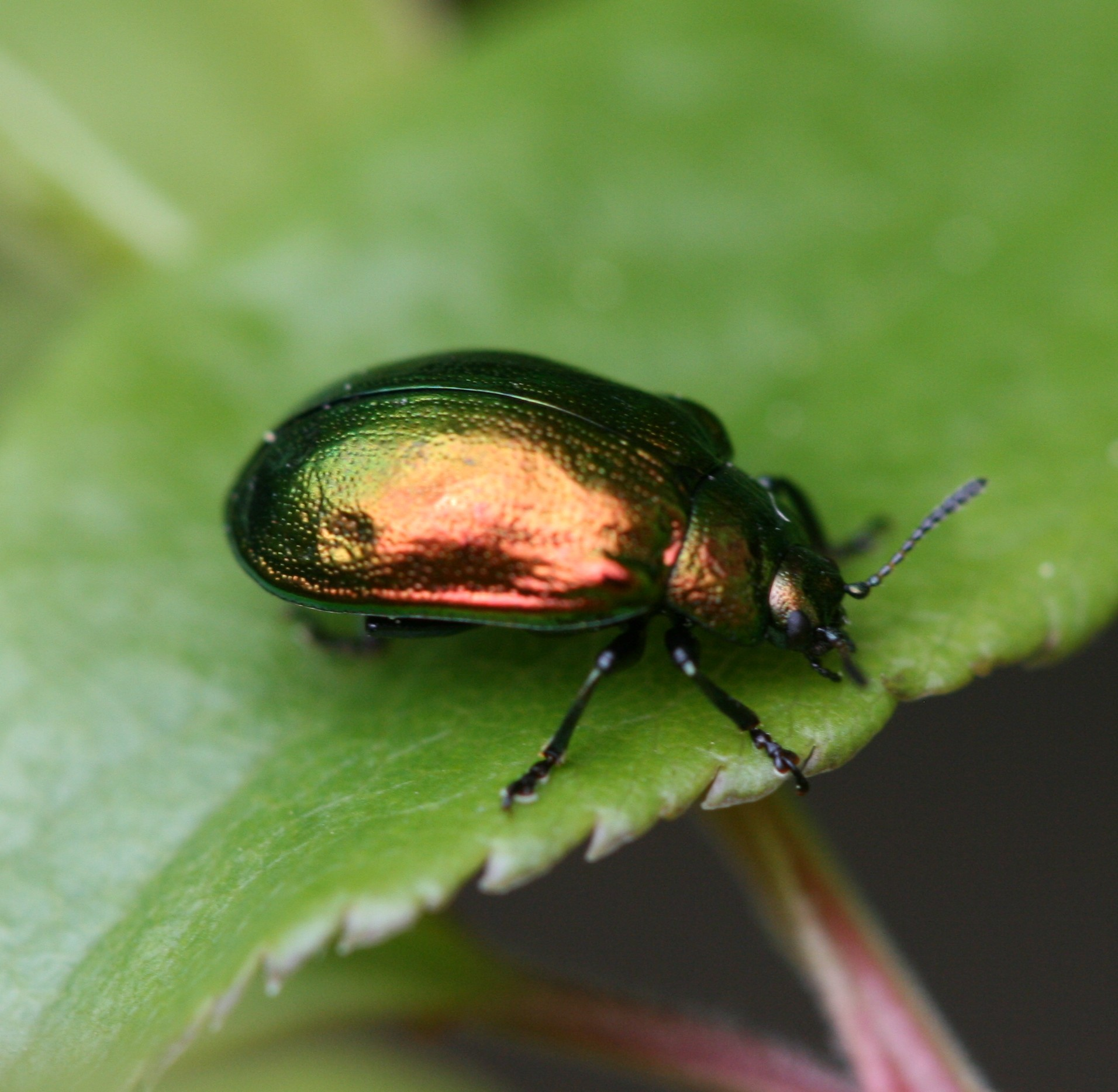 Chrysomela aenea - a Leaf Beetle found on alders